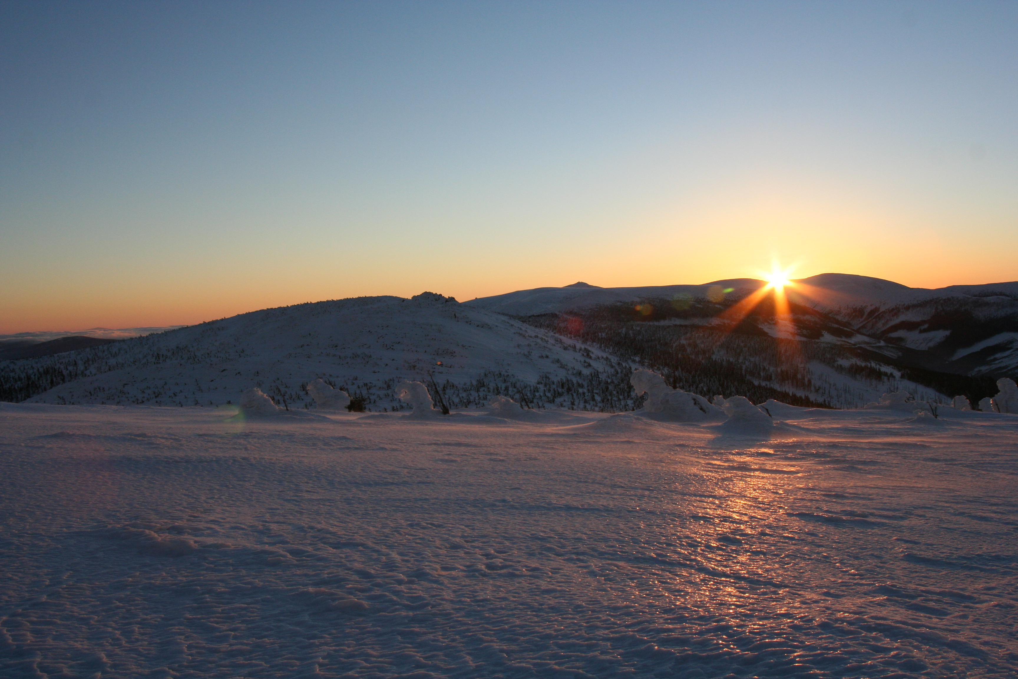 Winter sunrise in Karkonosze, Poland. Photograph taken from Śmielec. Śnieżka far away in the background. Dziób (literally Rostrum) near Czeskie Kamienie (Czech Mužske kameny) closer to the left. In the foreground typical glacial forms, which can be found in winter in Karkonosze.